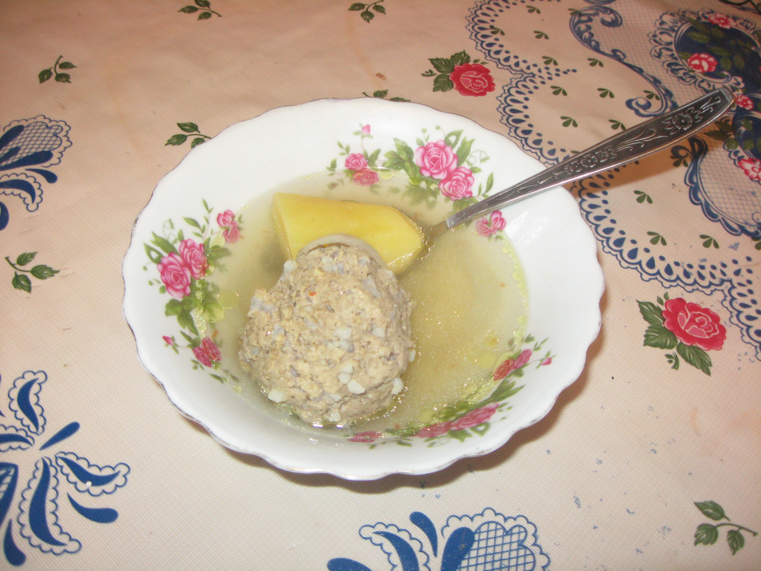 Azerbaijani kufta-bozbash